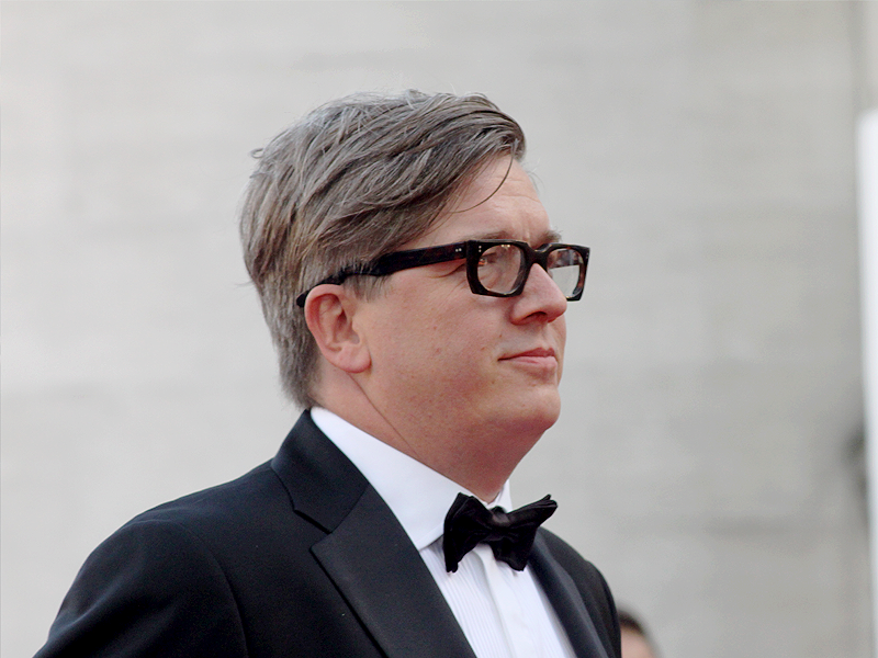 Director Tomas Alfredson at the London Premiere of Tinker Tailor Soldier Spy. BFI South Bank, Tuesday 13th September 2011